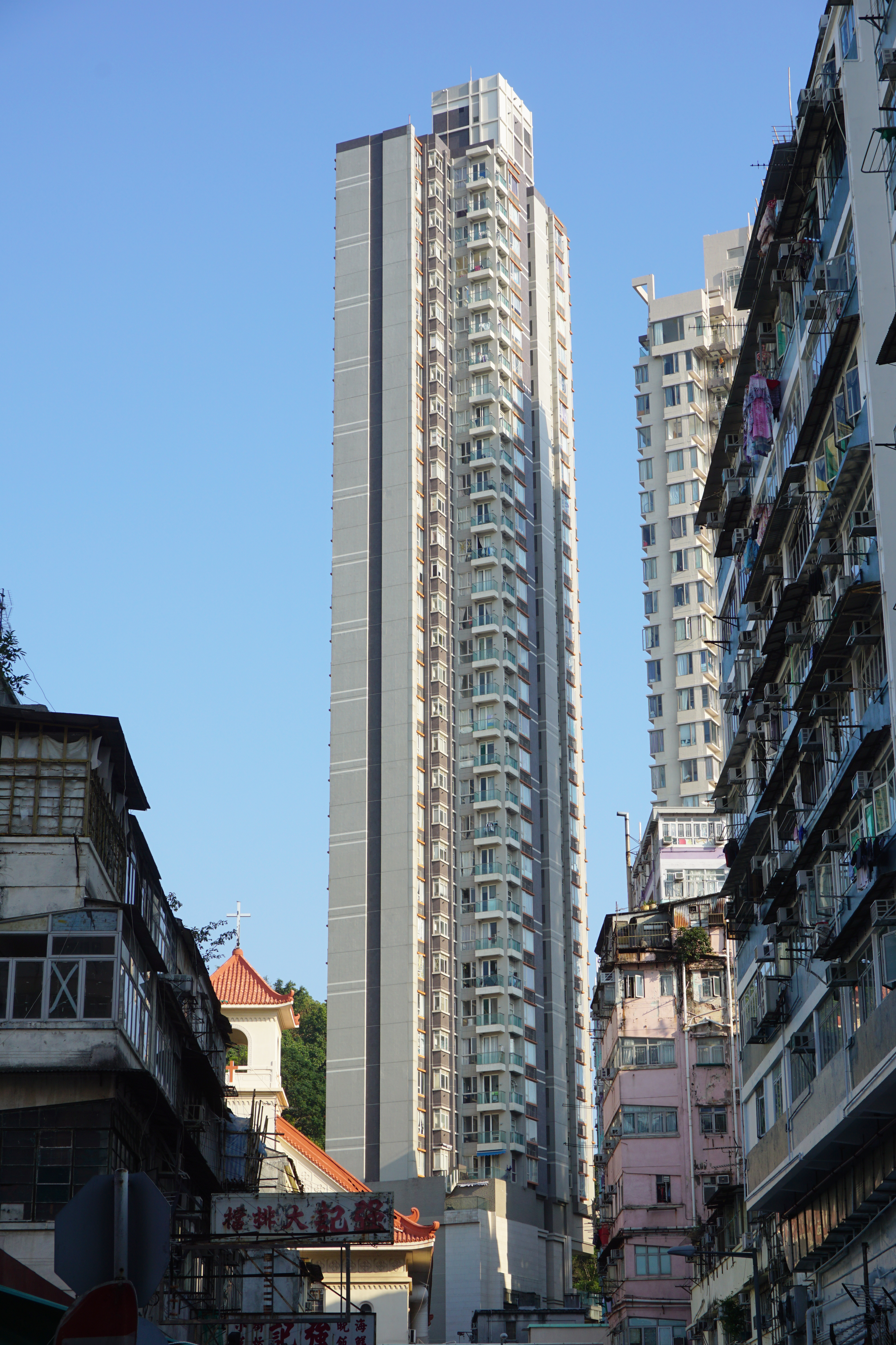 Gardenia in Sham Shui Po, Hong Kong.